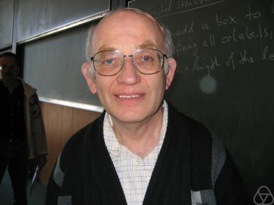 Joseph Bernstein, mathematician, at Oberwolfach